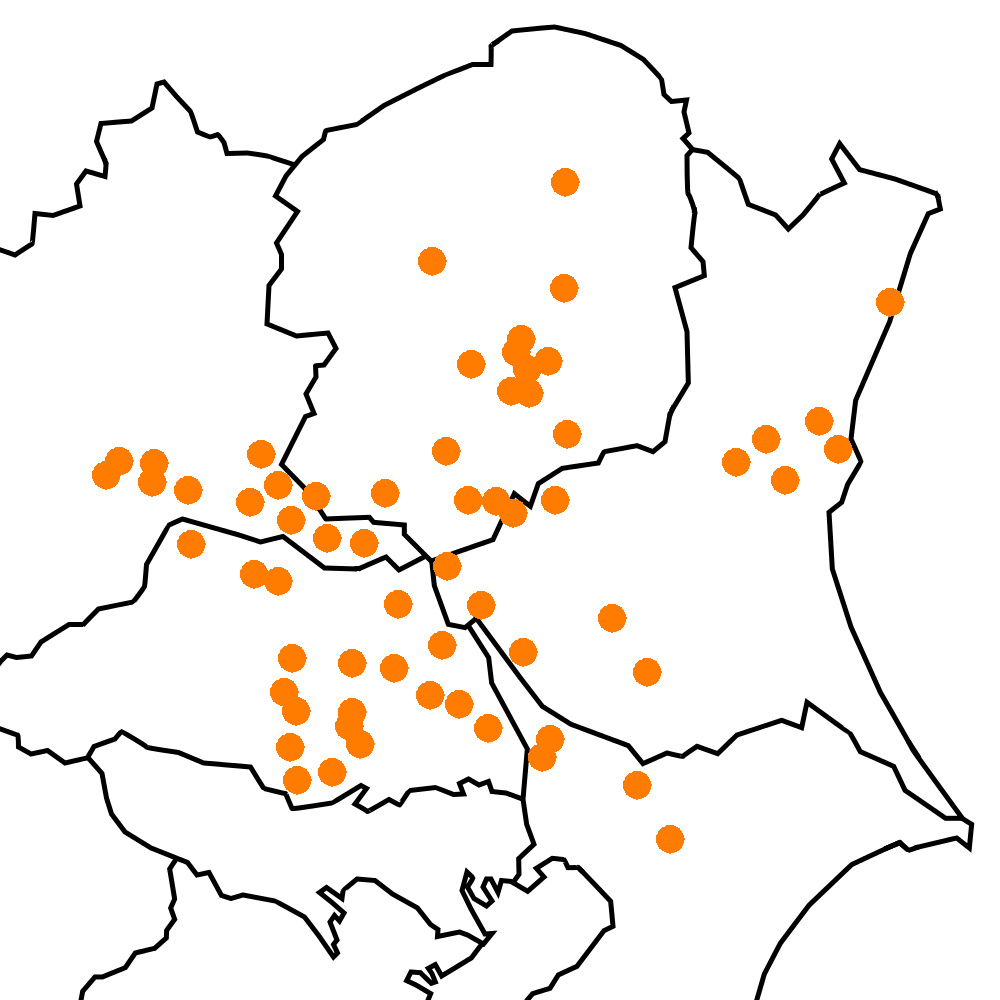 FlyingGarden StoreDistributionMap 20160101